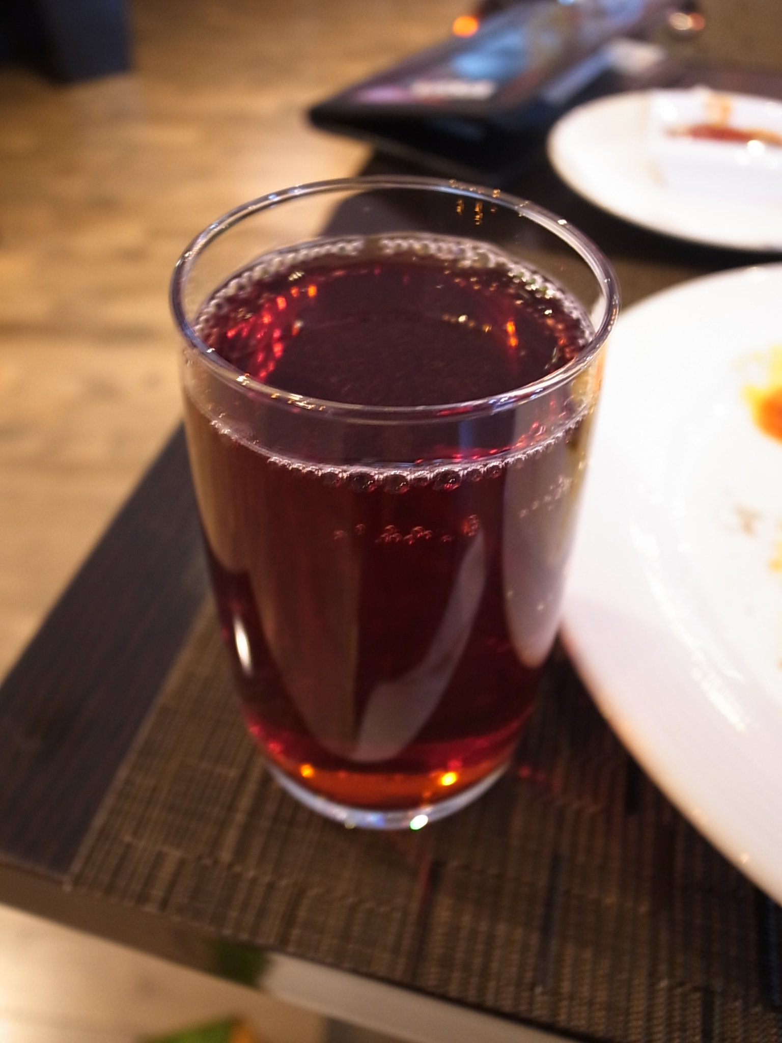 Cranberry juice